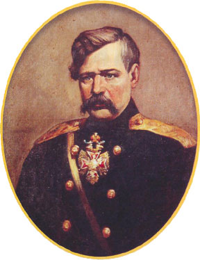 Filipson, Grirory Ivanovich